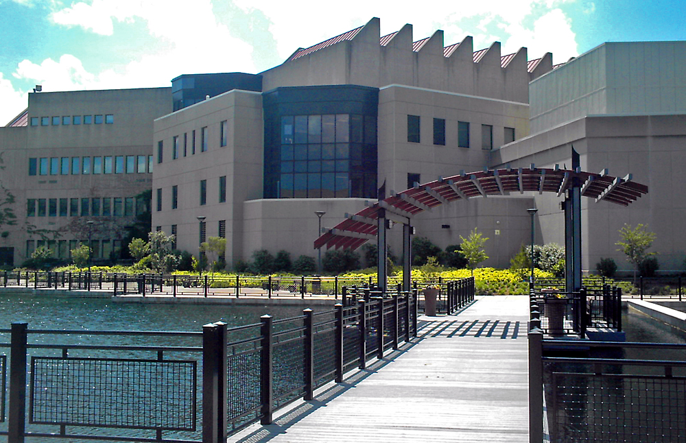 Northern Kentucky University Loch Norse, or the fortified with architecture campus lake, originally a runoff feature arisen from construction on hillsides, all forested. Fine Arts Building (theatre, music, fine arts) in the background.